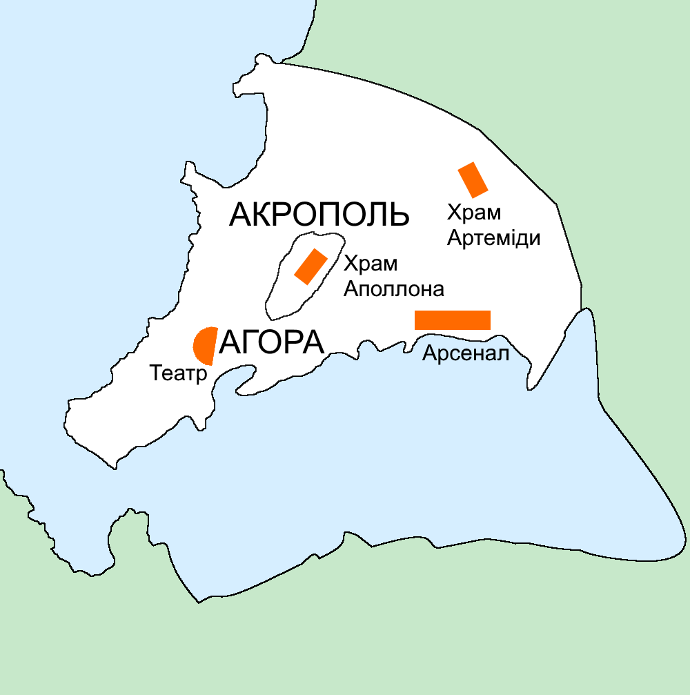 Map of Massalia in the Classical Time